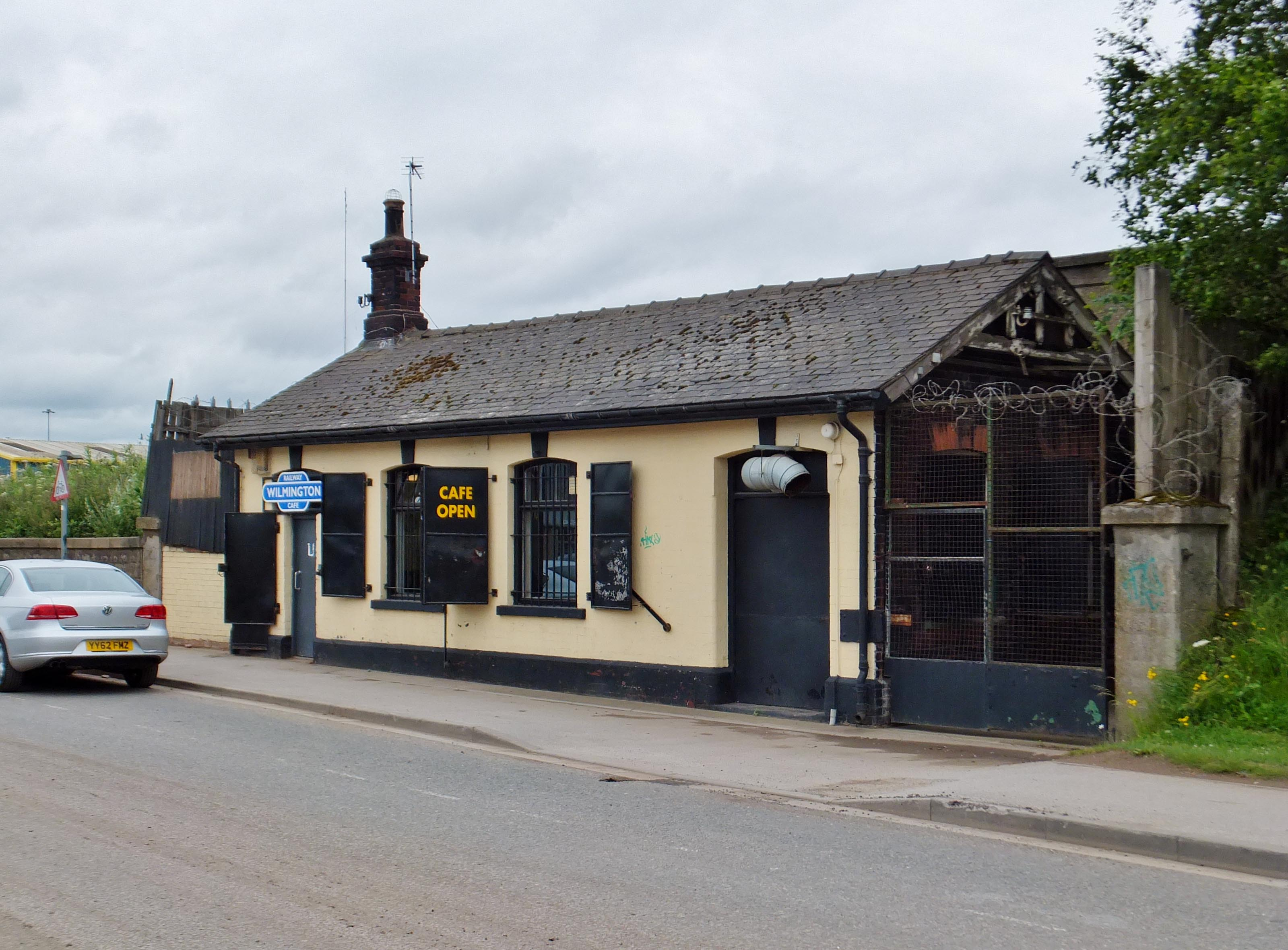 Foster Street, Hull, East Riding of Yorkshire, England.Opened in 1912 for the North Eastern Railway to replace the Hull and Hornsea's original Wilmington Station (opened 1864) to the east of Stoneferry Road. Wilmington had a wooden island platform and waiting shelter accessed via a subway from the booking office on Foster Street. Freight services to and from the docks continued to use the line until its complete closure in 1969. The ground level booking office is now in use as the Wilmington Railway Café. External link